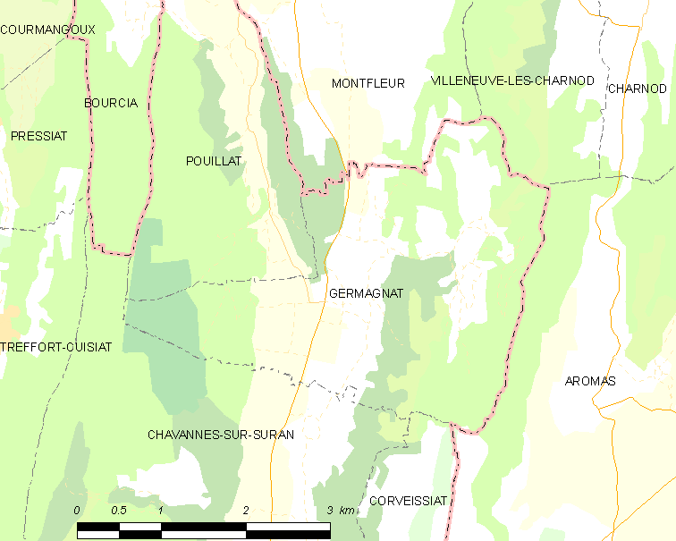 Map of French commune: Germagnat Map commune FR insee code 01172.png